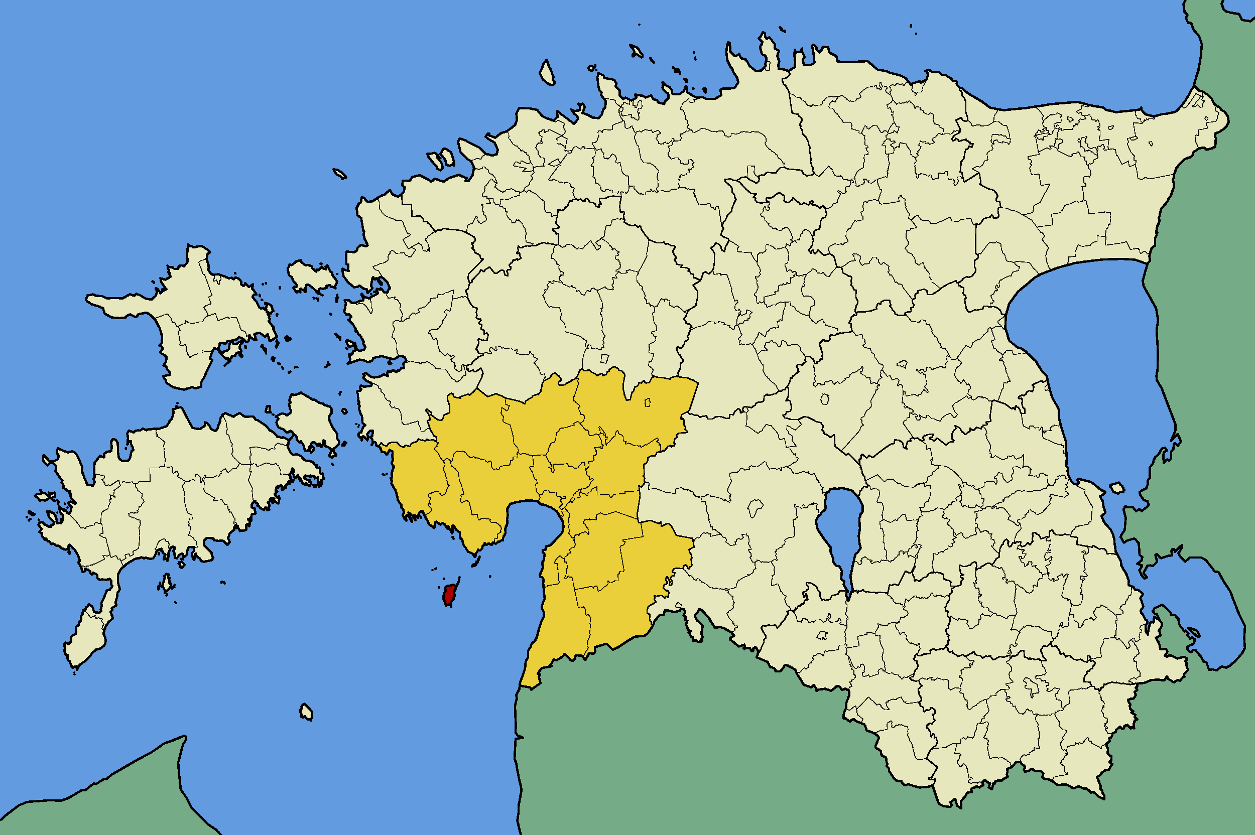 Map of Estonia with borders of municipalities (parishes). Pärnu county and Kihnu municipality emphasized.